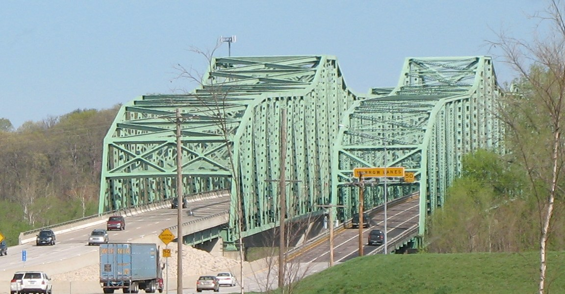 Daniel Boone Bridge - Photo by poster in April 2007.